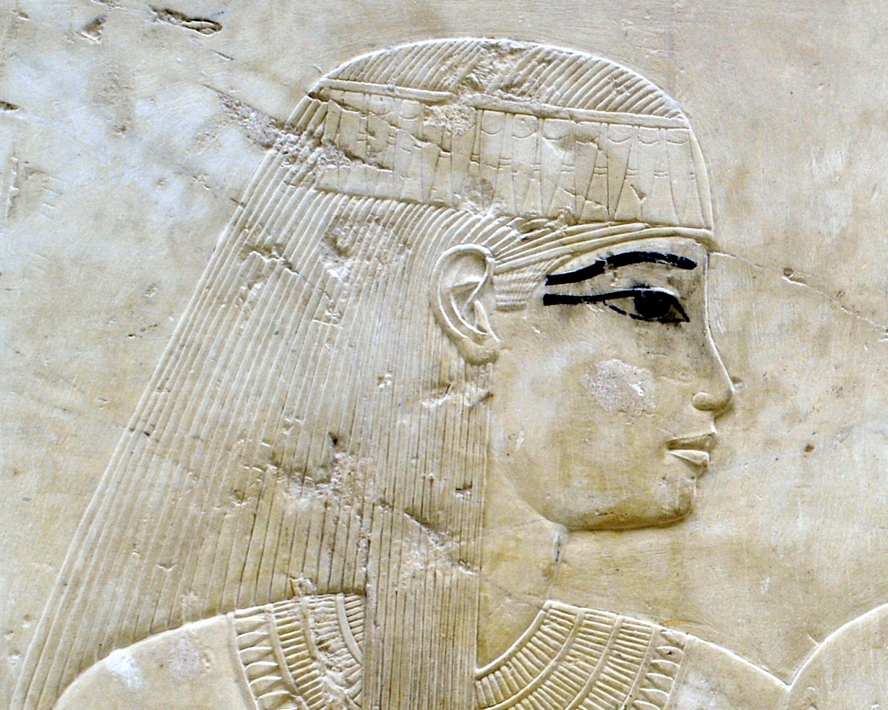 Apouya, mother of ramose